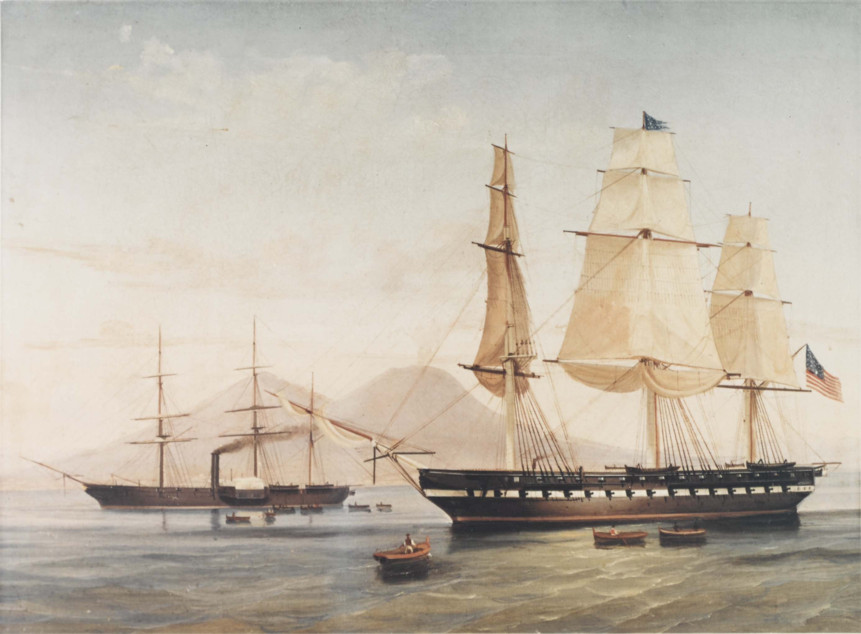 The USS Congress (right) was built in 1841 at the Portsmouth Naval Shipyard.